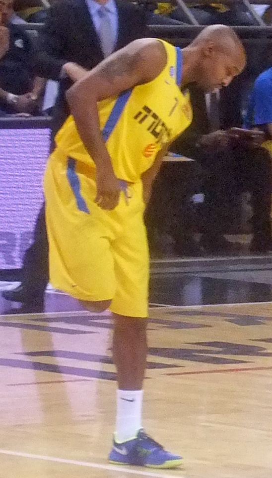 A basketball scene.